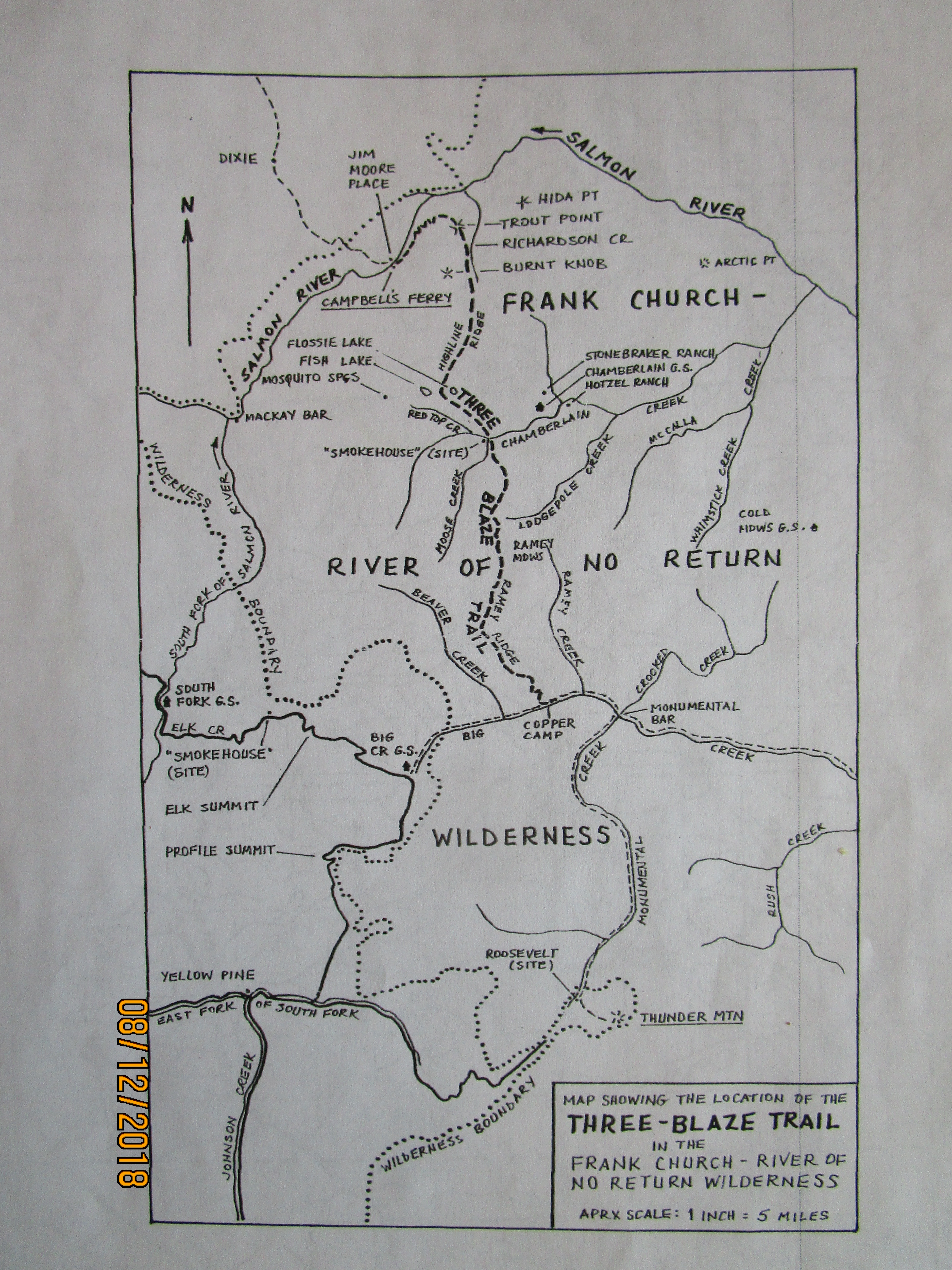 Route description.